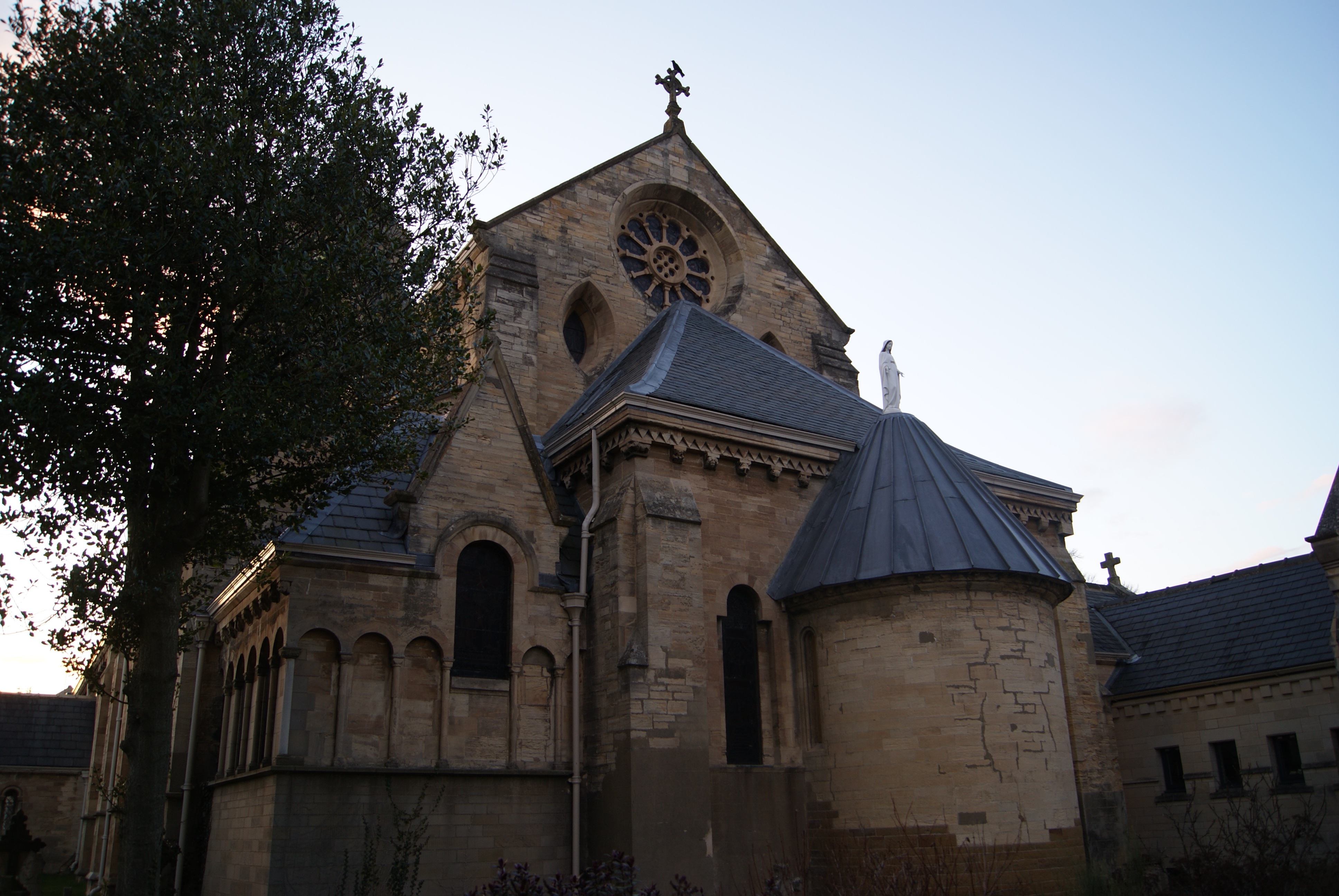 St Edward King and Confessor Catholic Church, Clifford, West Yorkshire from the rear of the building. Taken around early evening on Monday the 1st of March 2010.